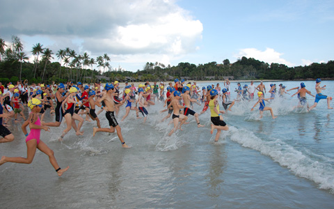 Start at kids triathlon